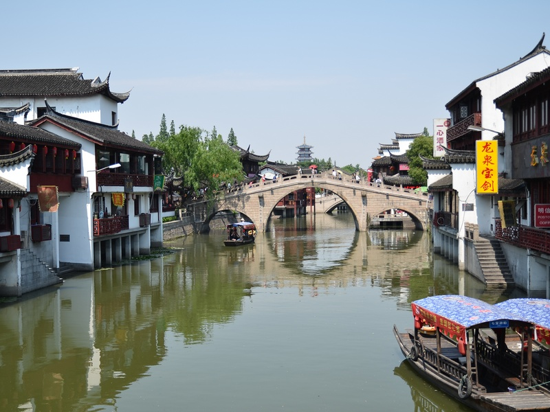 ja：近代都市「上海」の郊外に残る水郷「七宝」 location: Shanghai caption: Qibao （七宝）